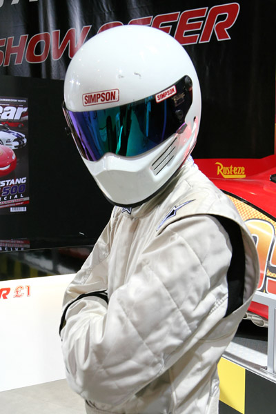 The Stig at the British International Motor Show taken on July 23, 2006.